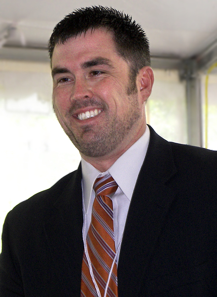 Marcus Luttrell, former Navy SEAL and author of Lone Survivor: The Eyewitness Account of Operation Redwing and the Lost Heroes of SEAL Team 10 at the 2007 Texas Book Festival, Austin, Texas, United States.